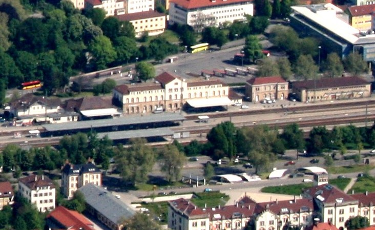 Clipping of aerial shot of Tübingen focussing on main station